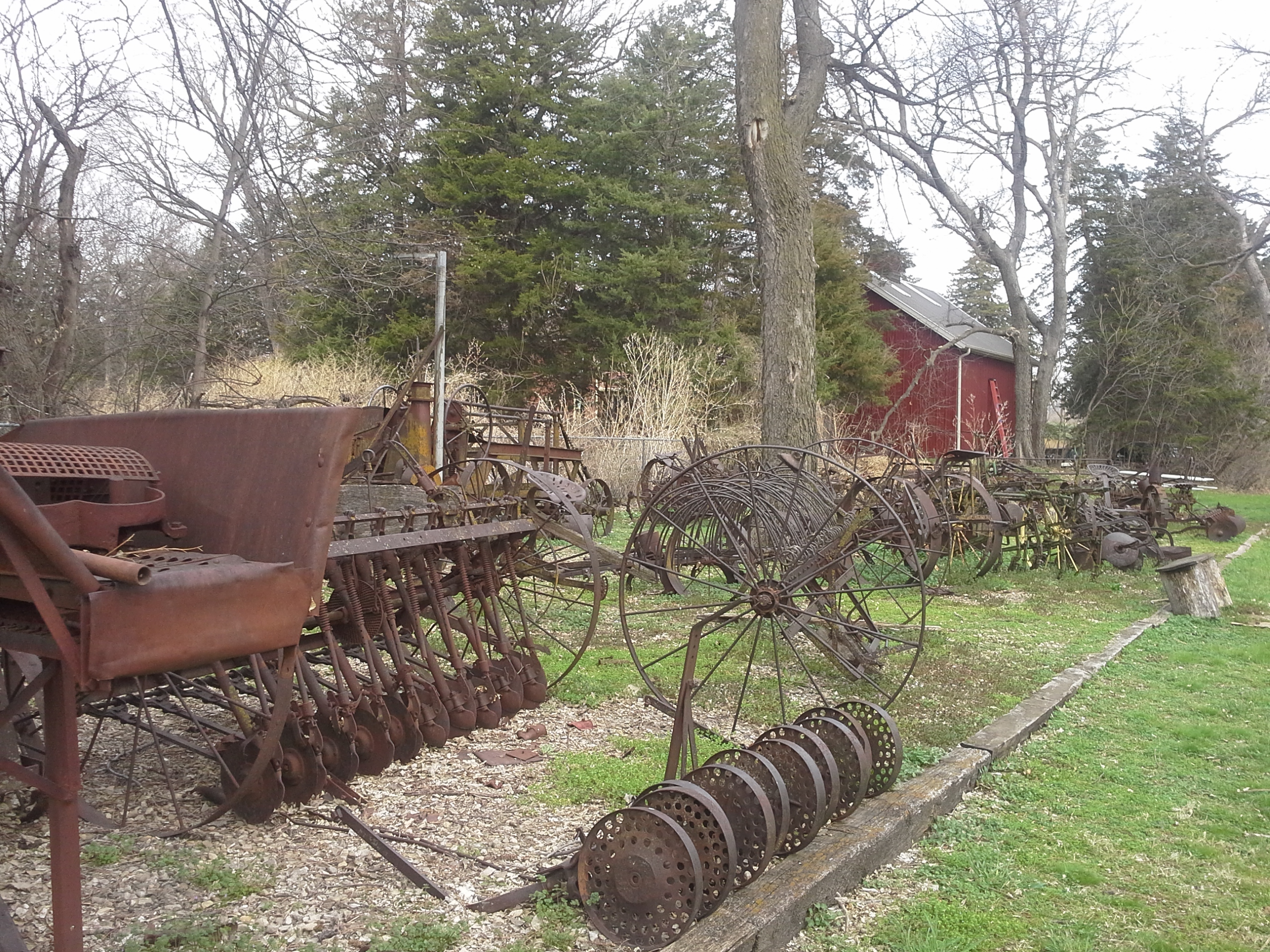 Farm machinery at McPherson County Old Mill Museum in Lindsborg Kansas KS USA